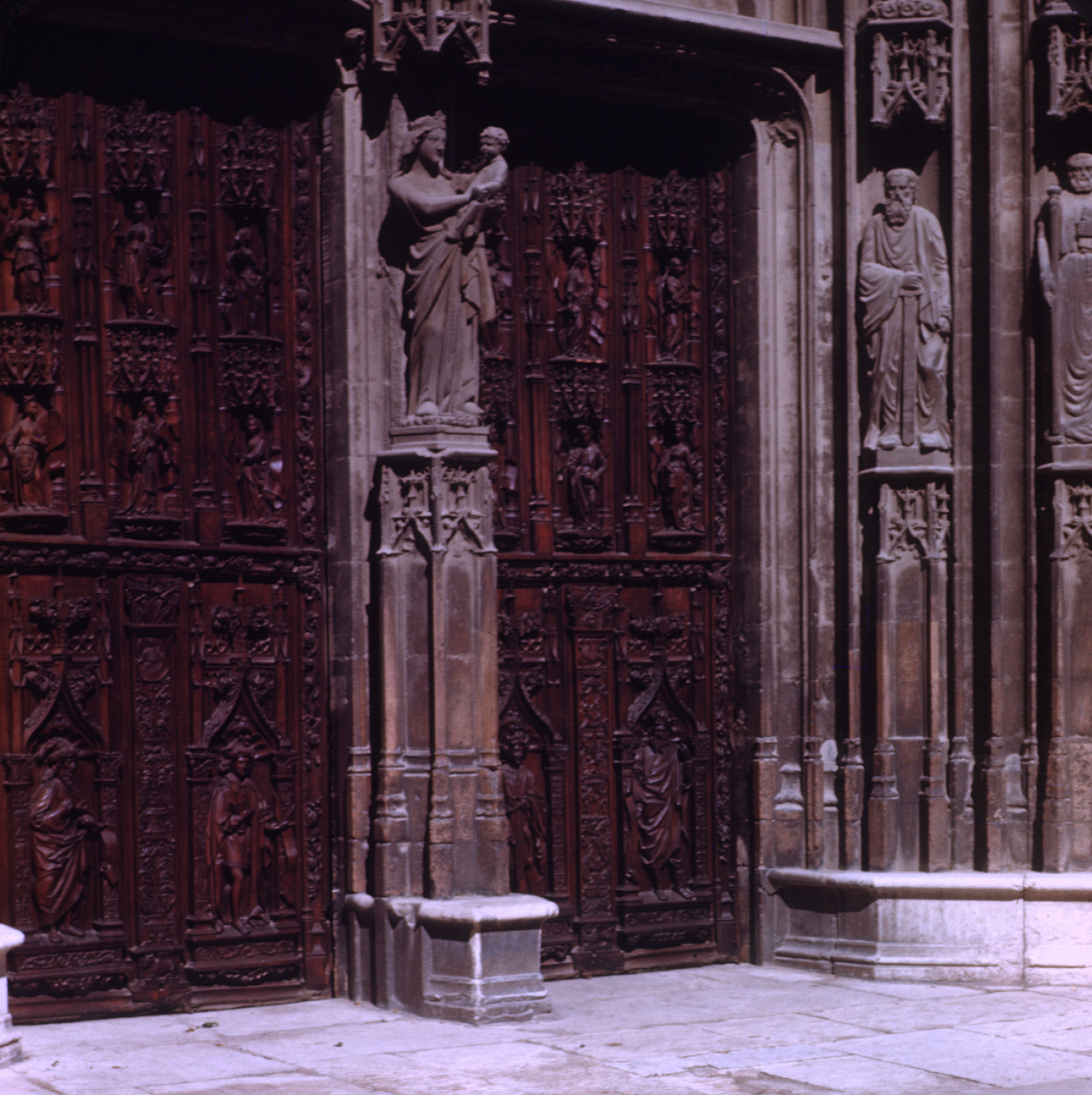 A 1949 picture showing the doors uncovered.